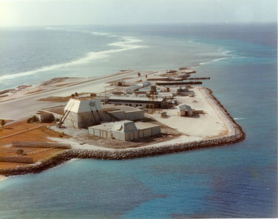 This image looks to the southeast across the southern end of Meck Island in the Kwajalein atoll. The main building in the foreground is the Systems Technology Test Facility. This was originally used during the Nike-X program to test the Missile Site Radar, which is installed on the white pyramid, just left of center. The rails extending to the ground allowed maintenance using a system similar to a window-washing elevator. Nike-X evolved into Sentinel, then Safeguard, and then the entire ABM effort was shut down after the 1972 ABM Treaty. In the later 1970s, fears grew that the Soviets might "break out" of the ABM Treaty. To counter this possibility, the Army began development of the Site Defense Program, which would incorporate a radar similar to the MSR but using newer electronics, and an updated missile known as Sprint II. The new Site Defense Radar (SDR) was built on the smaller building just to the right of the original MSR in 1977, and operated until 1980. No Sprint II missiles were built, and the program switch to focus on technology development instead of testing. The island was backfilled to make room for the SDP buildings, and the filled in area can be seen in this image as the light colored ground on the right side. The two metal fences on the lower left of the image reflected the sidelobes of the original MSR away from the built-up area for the missile silos, which is off-frame to the left.